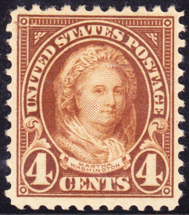 US Postage stamp, Martha Washington, 1923 issue, 4c